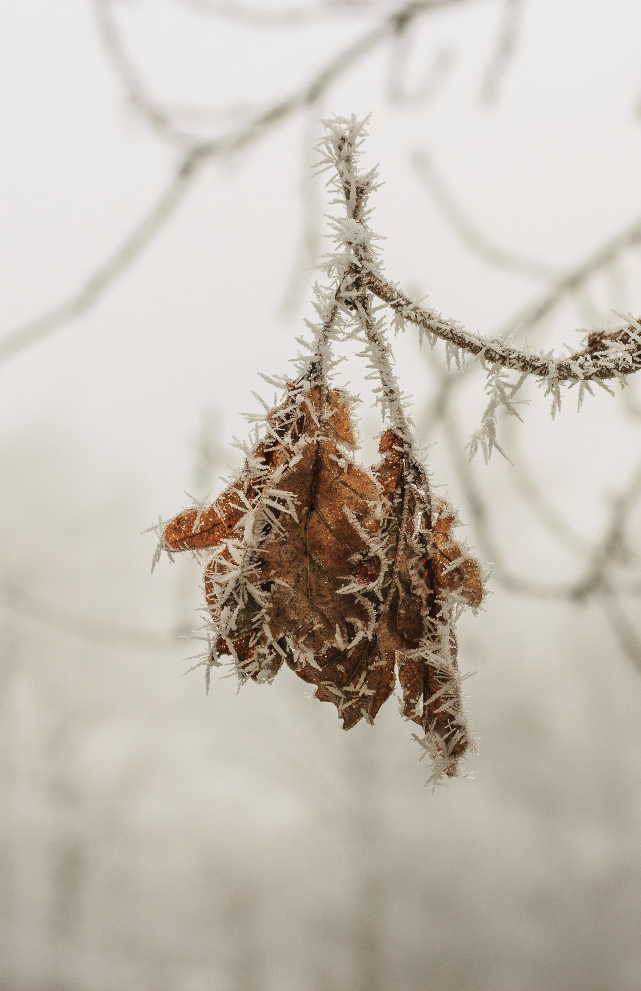 Oak (Quercus) leaf covered with hoarfrost.